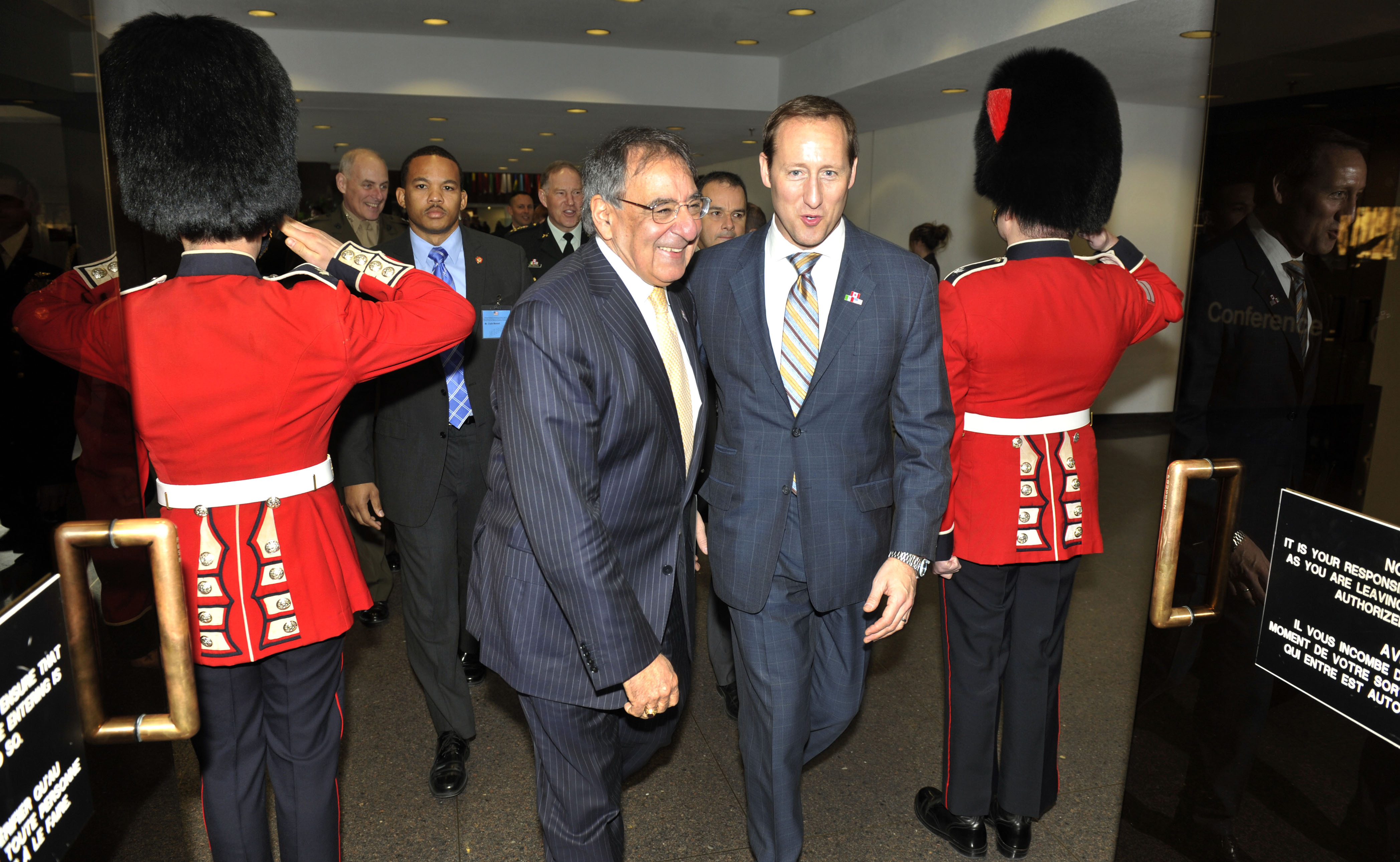 Secretary of Defense Leon E. Panetta is greeted by Canadian Minister of National Defense Peter MacKay as he arrives for trilateral meetings with Defense ministers from Canada and Mexico in Ottawa, Canada, on March 27, 2012.